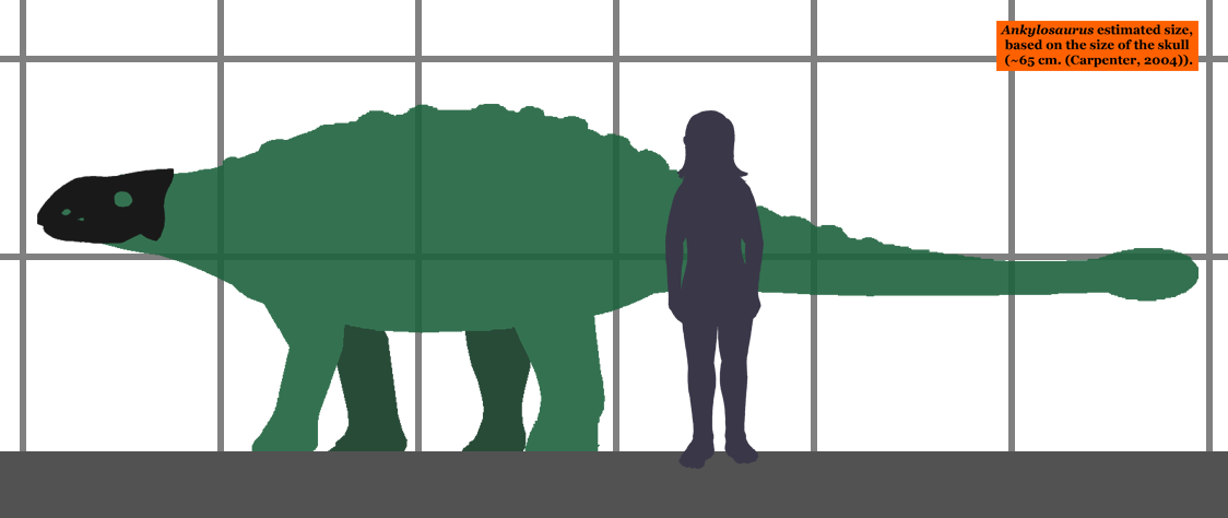 Estimated size of Ankylosaurus (Sauropsida, Archosauria, Dinosauria, Ornithischia, Thyreophora, Ankylosauria, Ankylosauridae, Ankylosaurinae), compared to a human.